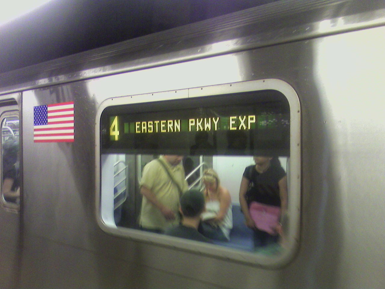 The destination sign for a 4 train to Woodlawn, leaving 125th Street-Lexington Avenue.